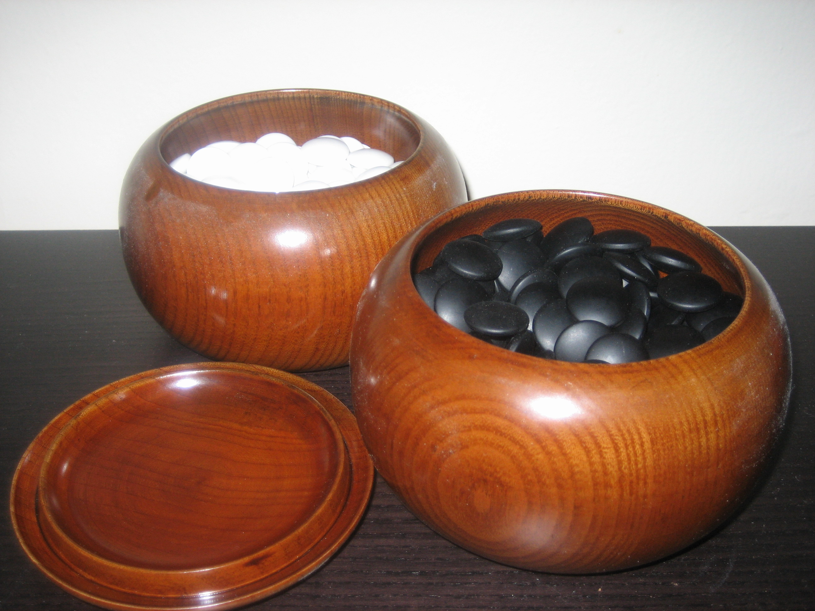 Go stones in traditional bowls.